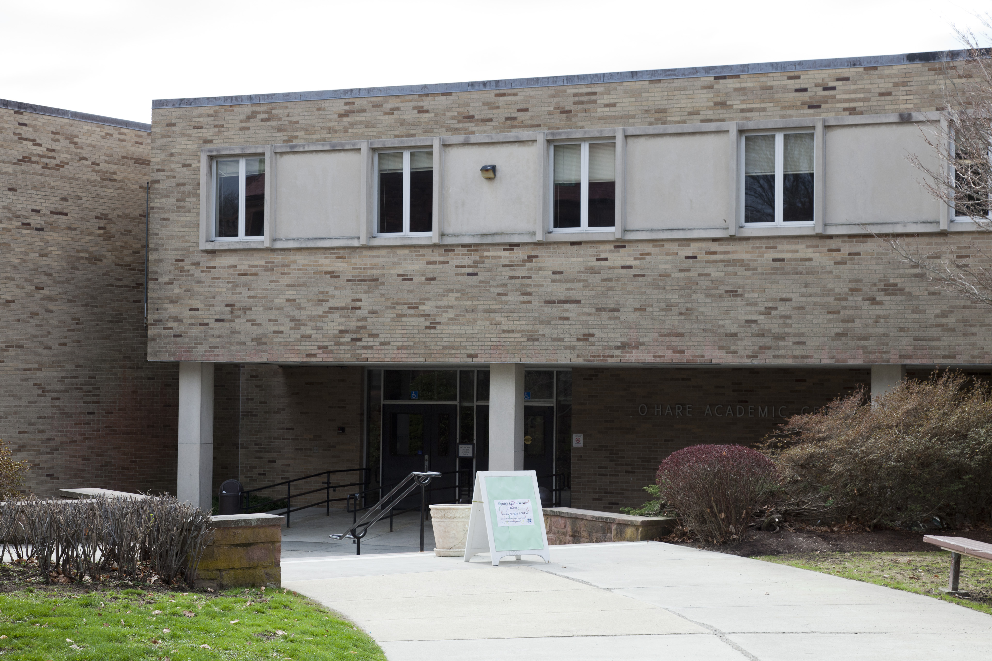 O'Hare Academic Center